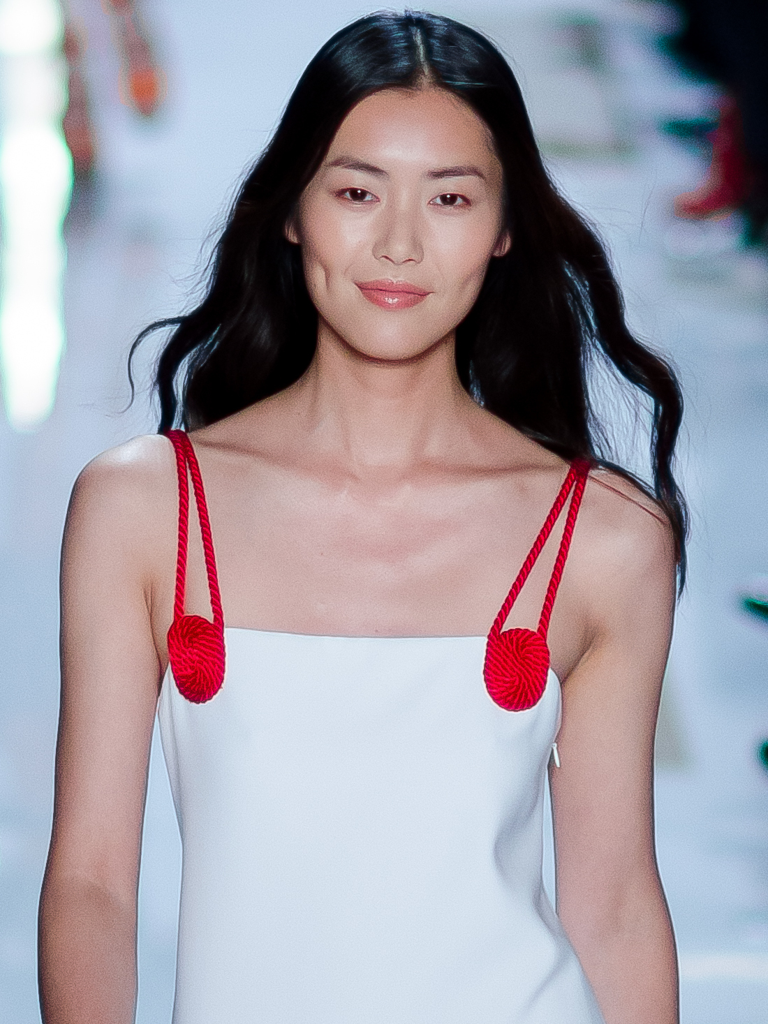 Liu Wen walks the runway at the Diane von Fürstenberg Spring/Summer 2014 show at New York Fashion Week, September 2013.